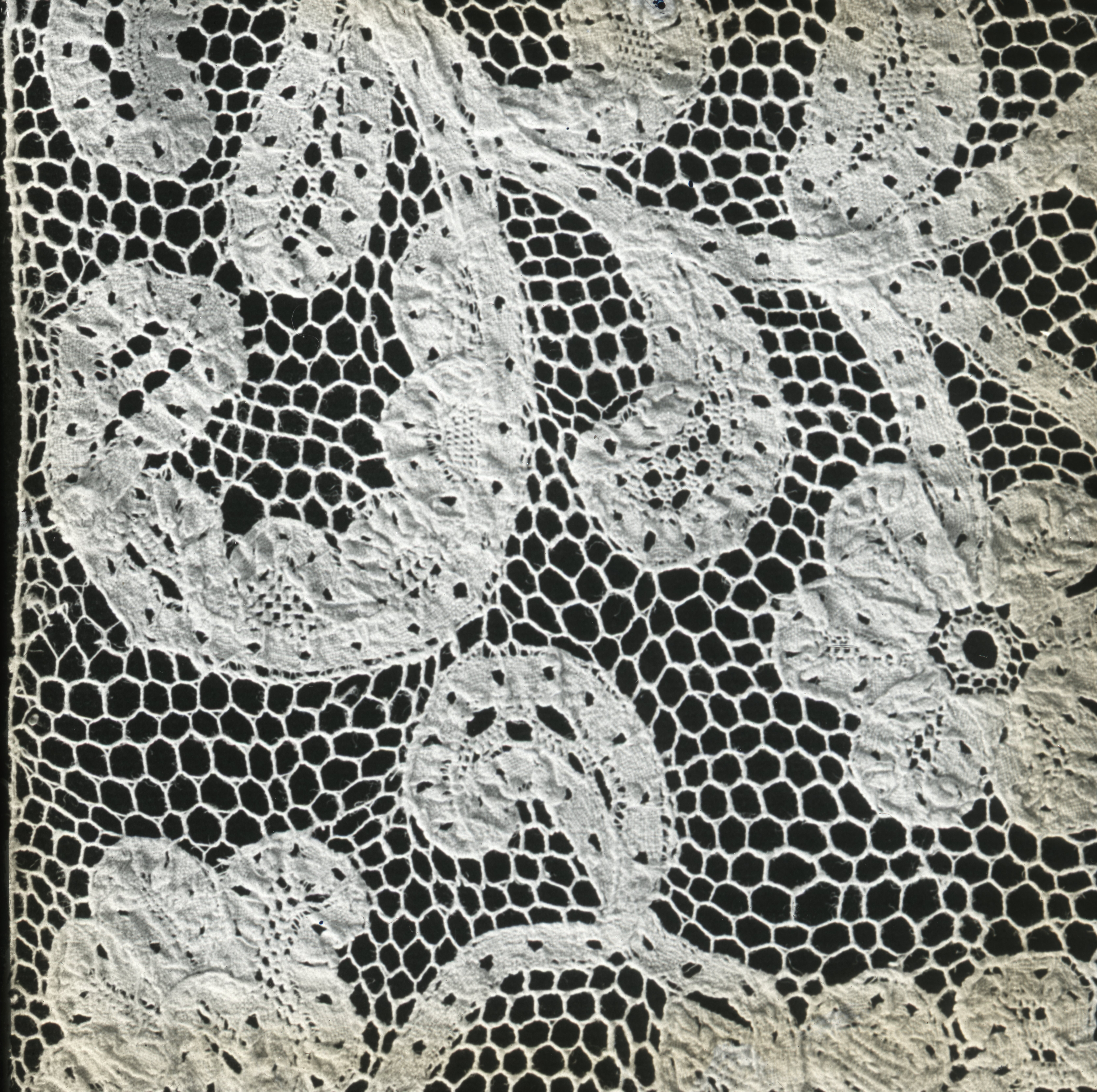 Detail point de Venise, c. 1700